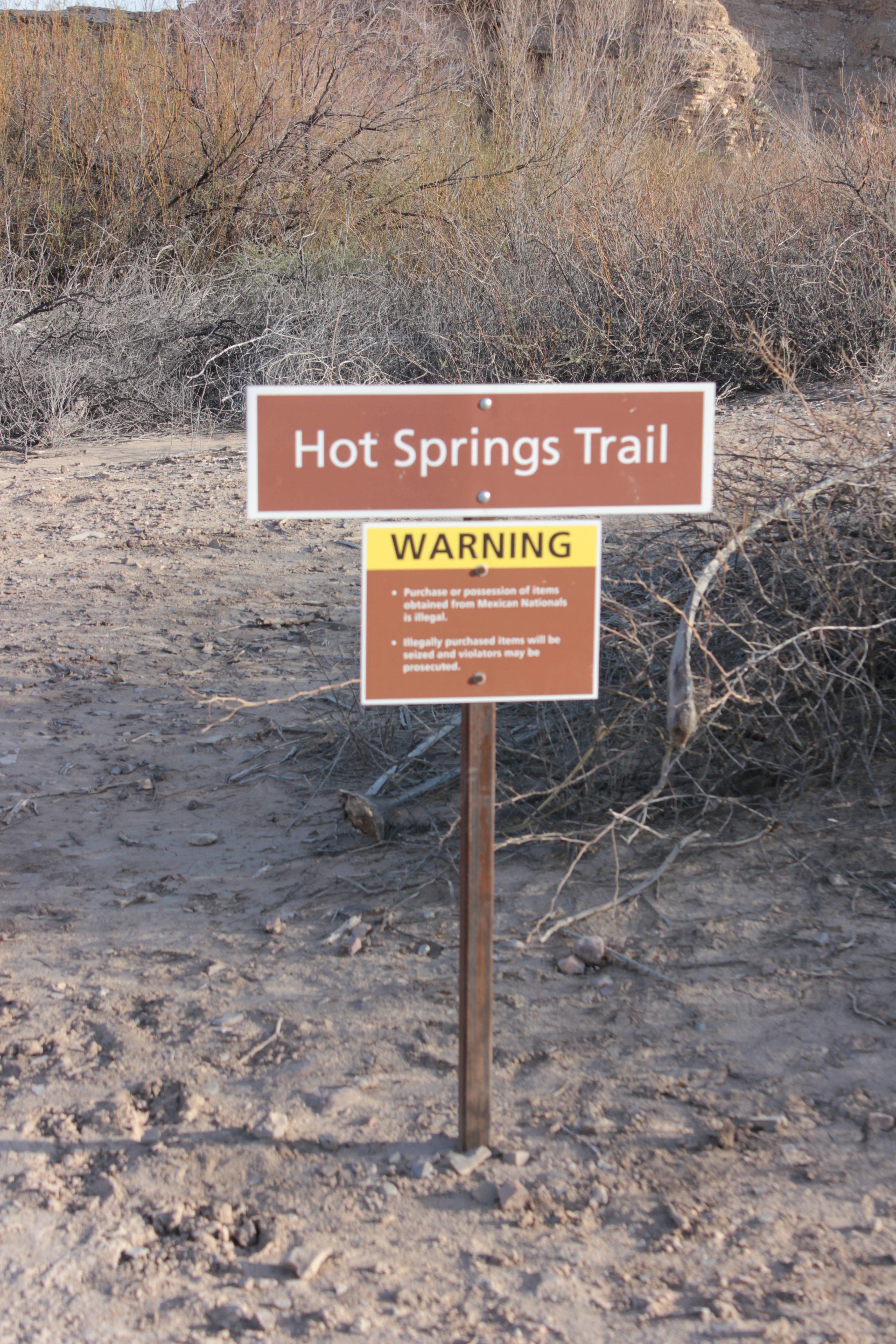 Big Bend National Park, Texas